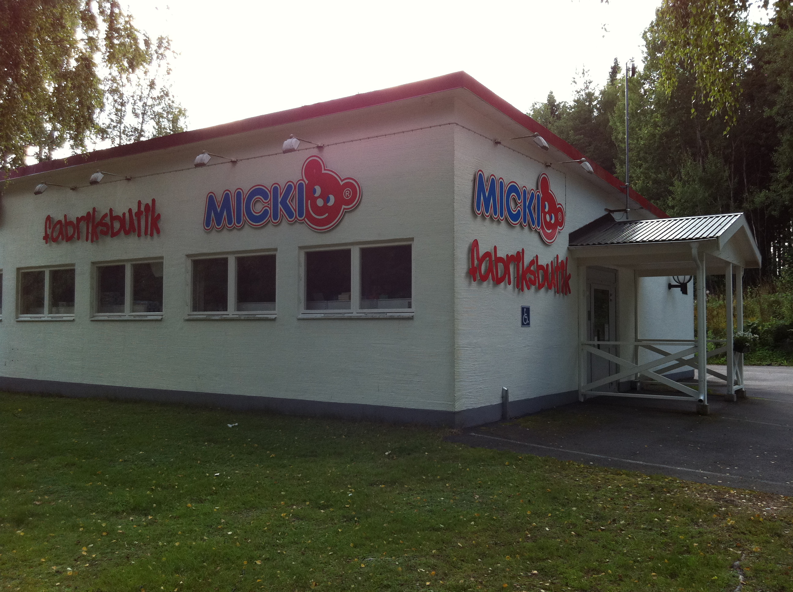 Micki toys in Gemla